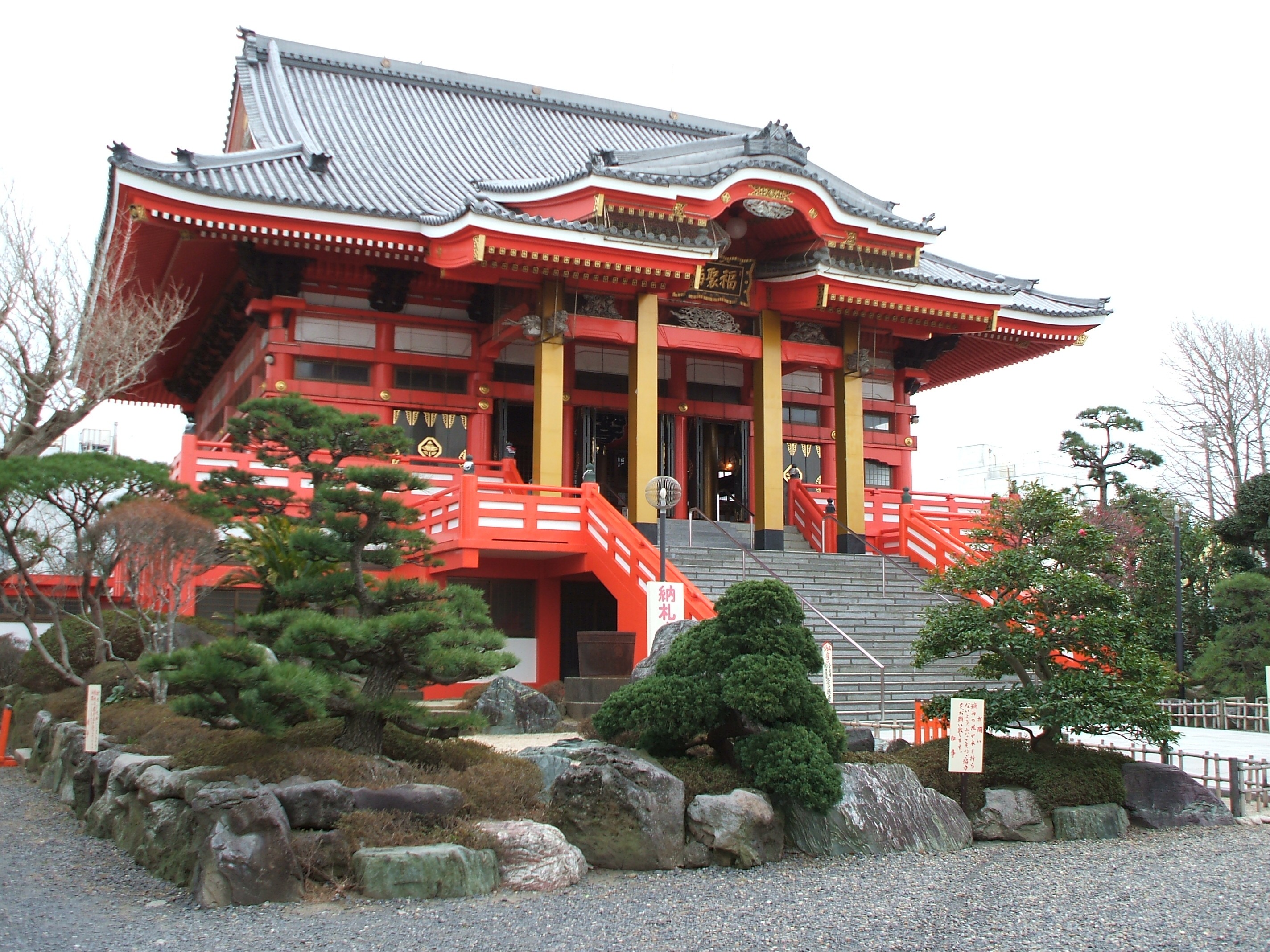 Kannondō hall of Enpuku-ji temple in Chōshi, Chiba prefecture